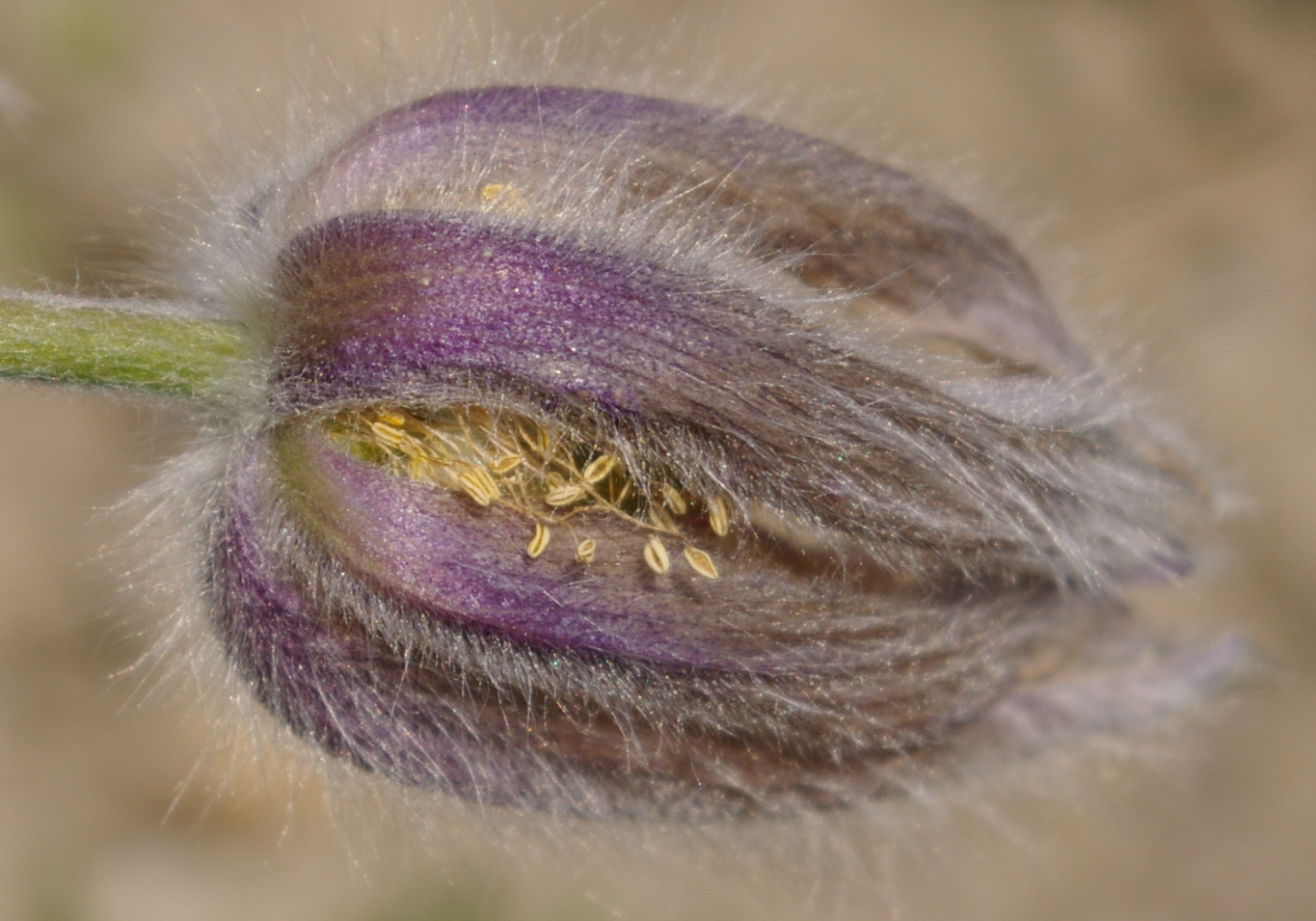 Pulsatilla vulgaris